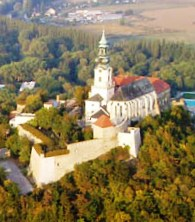 Castle with roman-catholic cathedral St. Emmeram in Nitra, Slovakia.